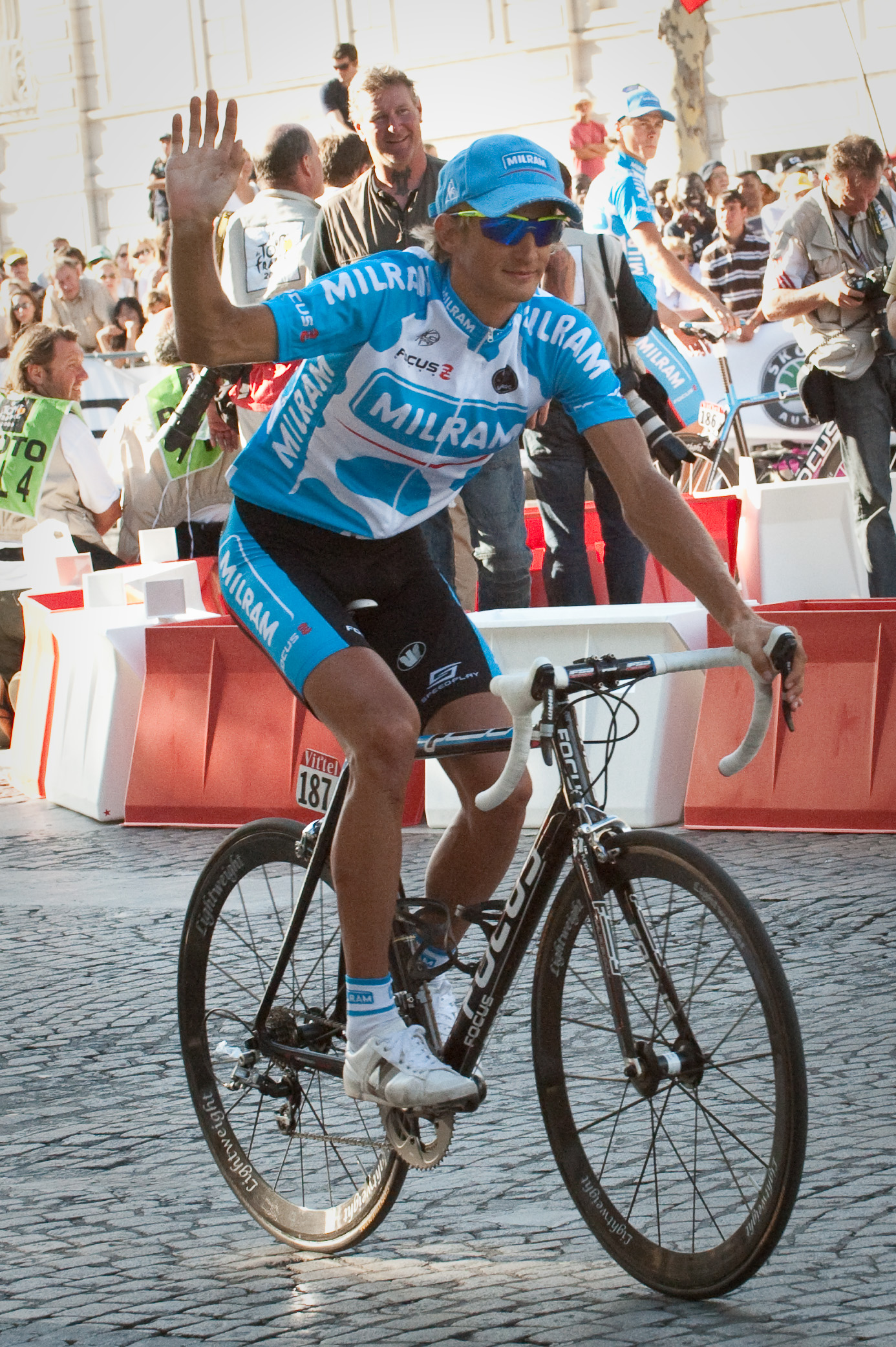 Tour de France 2009 - Parade Lap